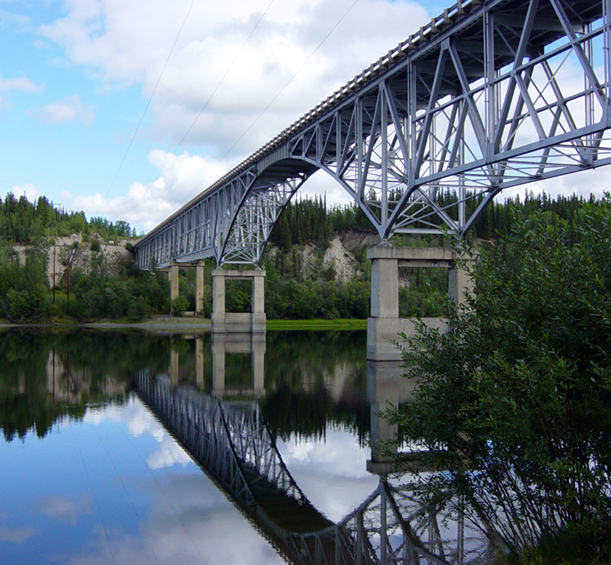 Bridge on Alaska Highway between Watson Lake and Whitehorse.